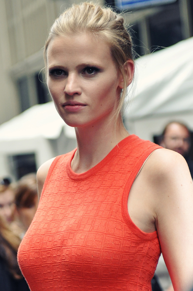 Lara Stone, Fashion Week NYC 2011, photo by Jiyang Chen